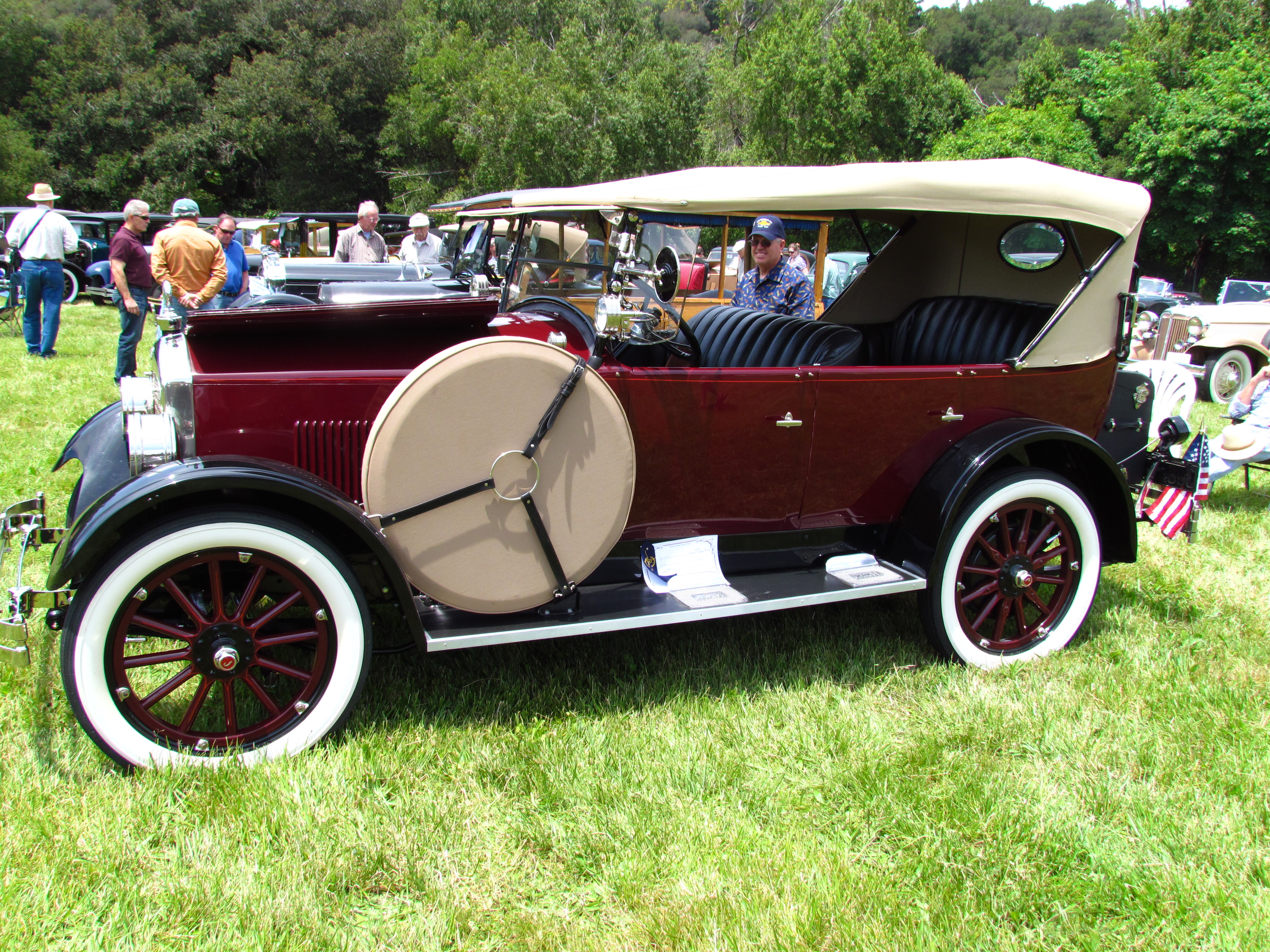 1923 Jewett Six touring